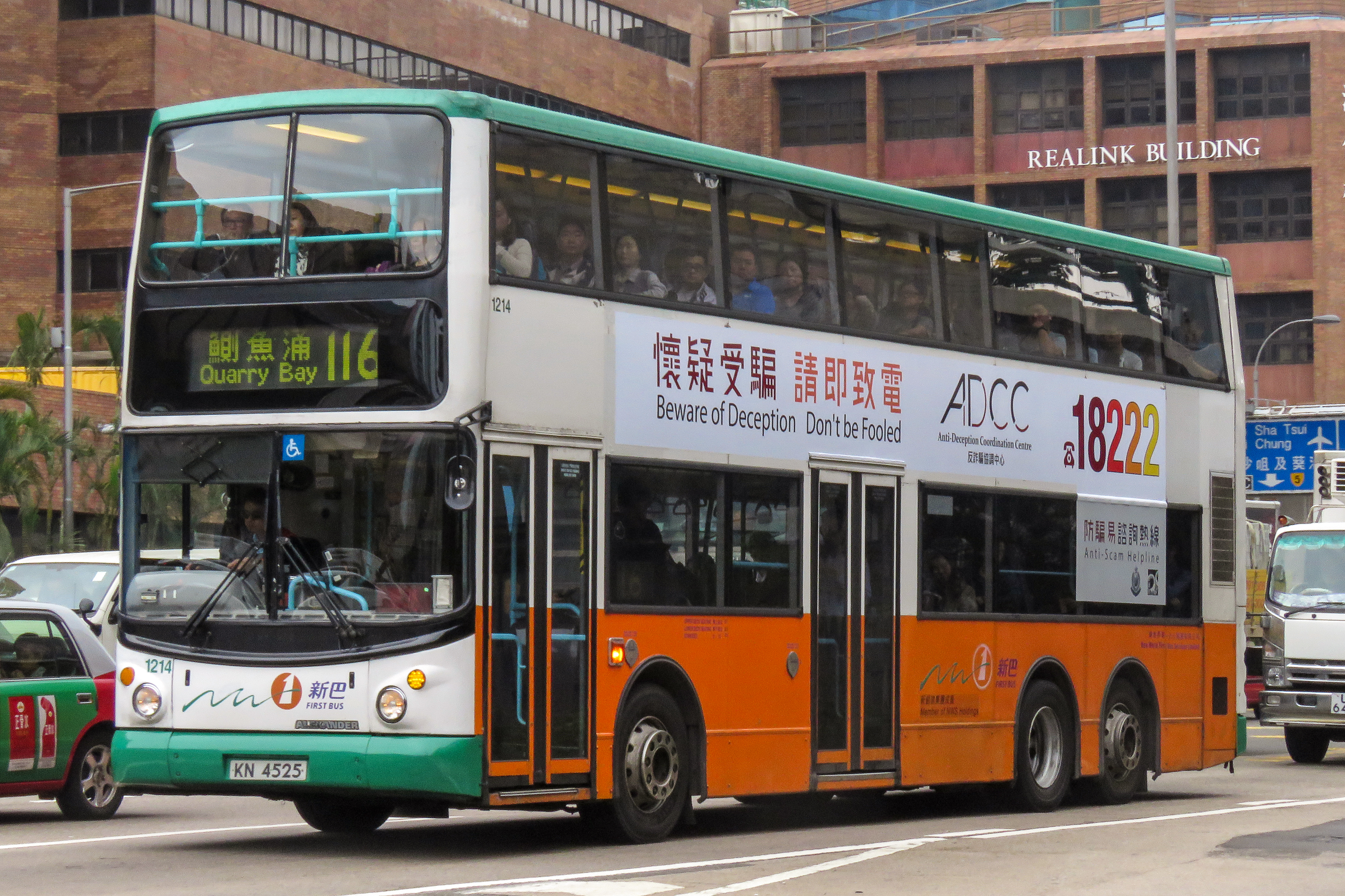 One of the last surviving Tridents...